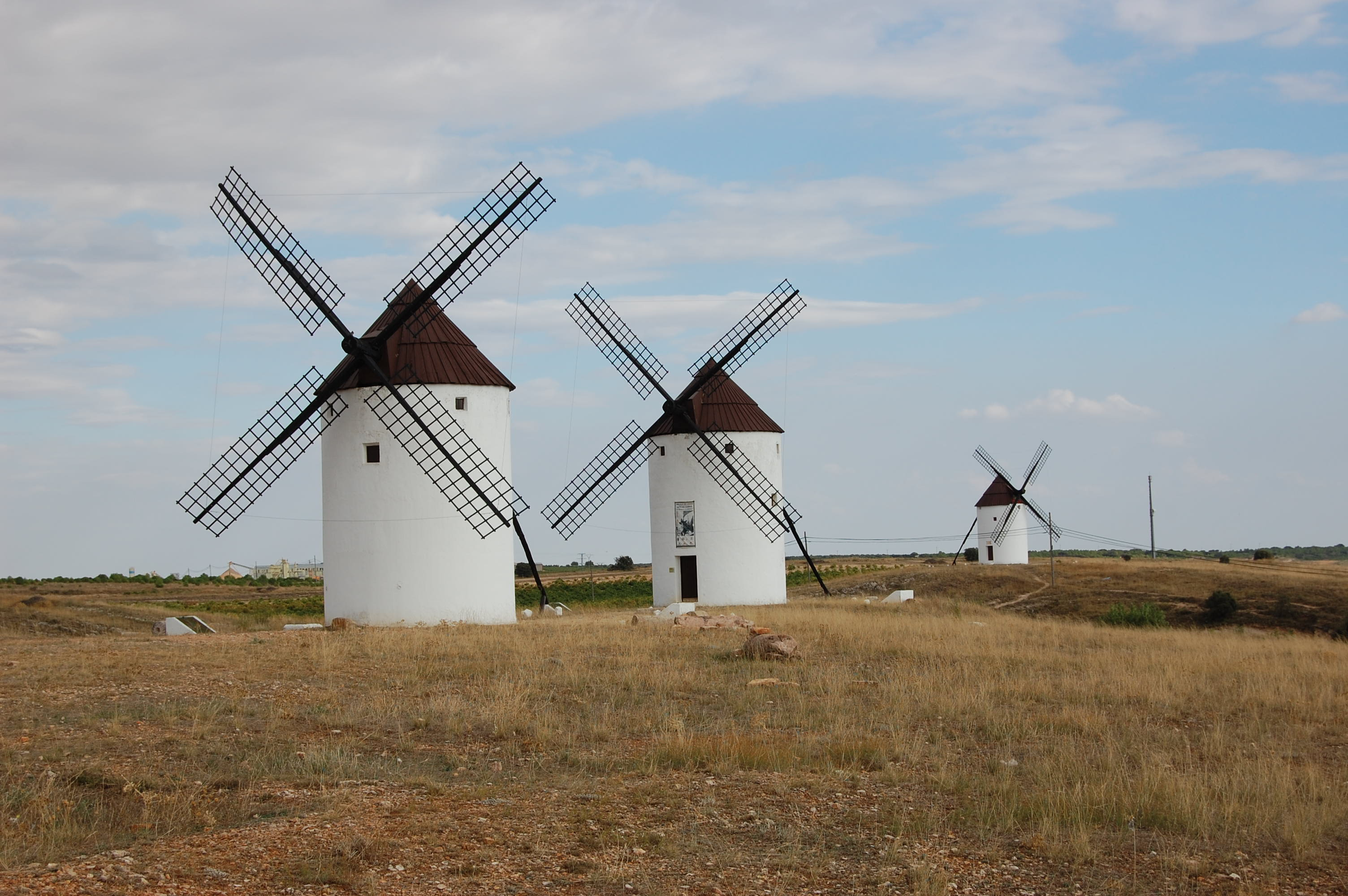 Windmills in Mota del Cuervo, Cuenca, Spain.